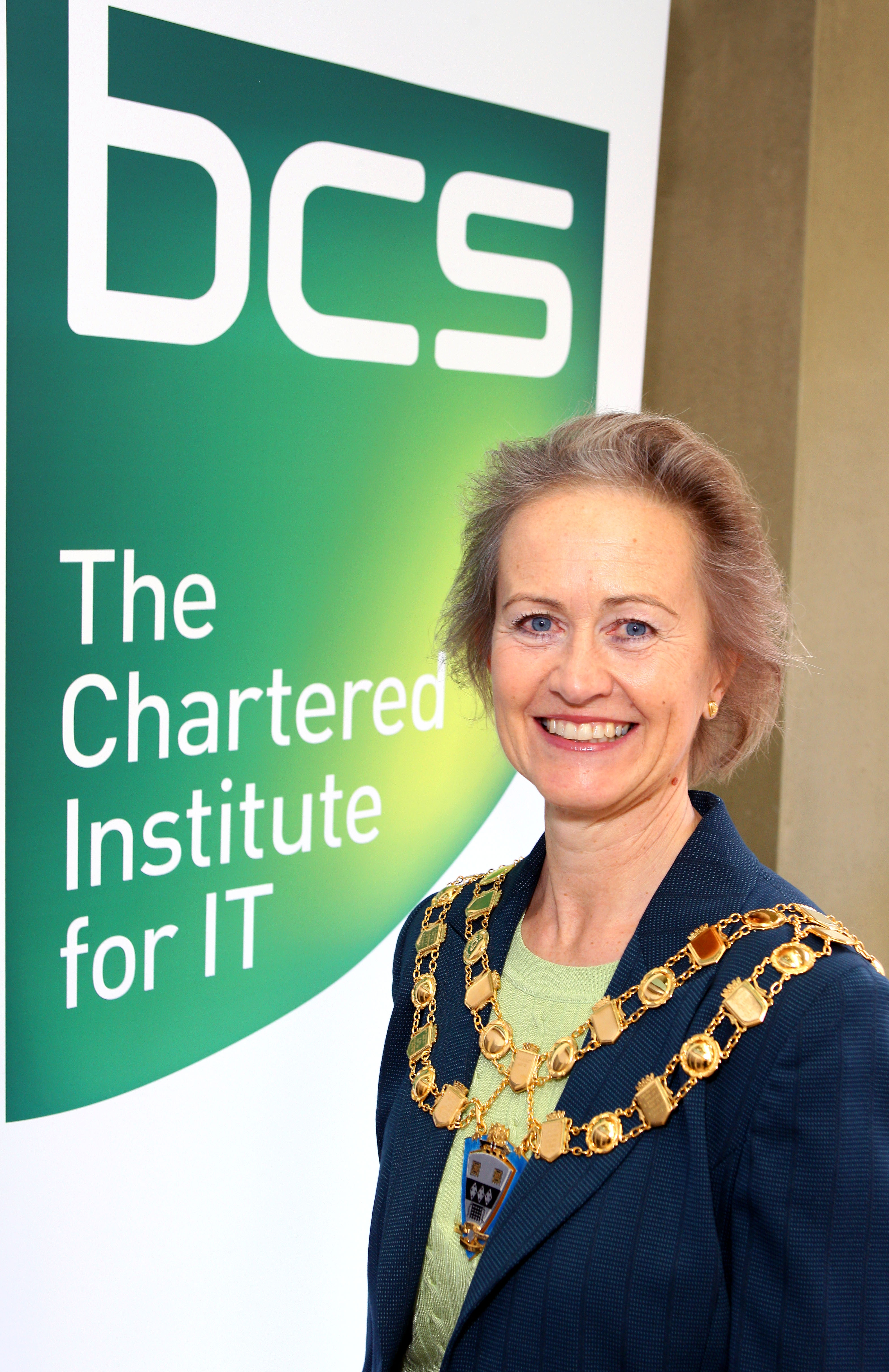 Elizabeth Sparrow with BCS logo